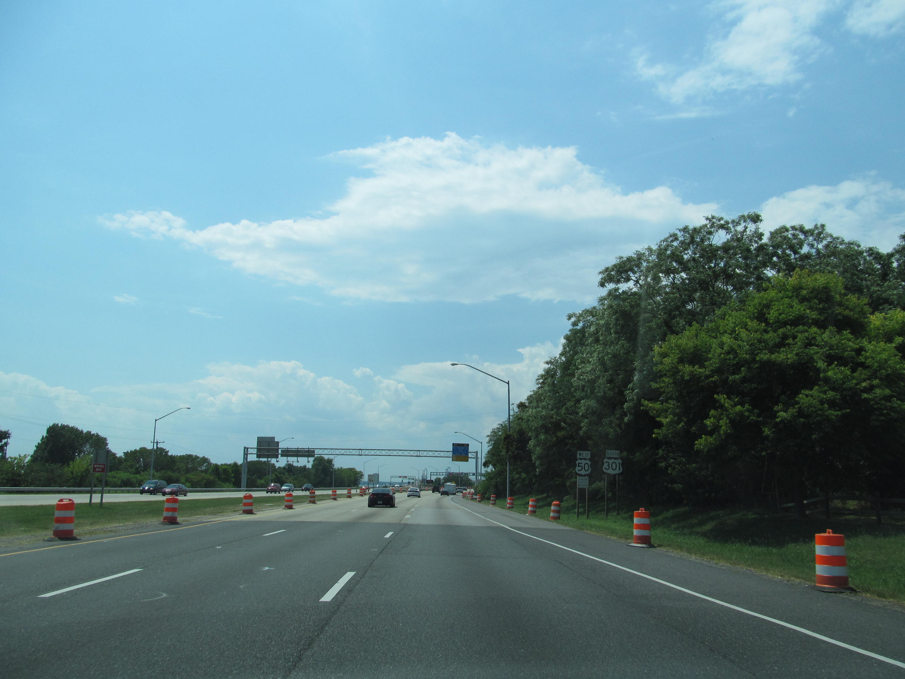 US Route 301 - Maryland